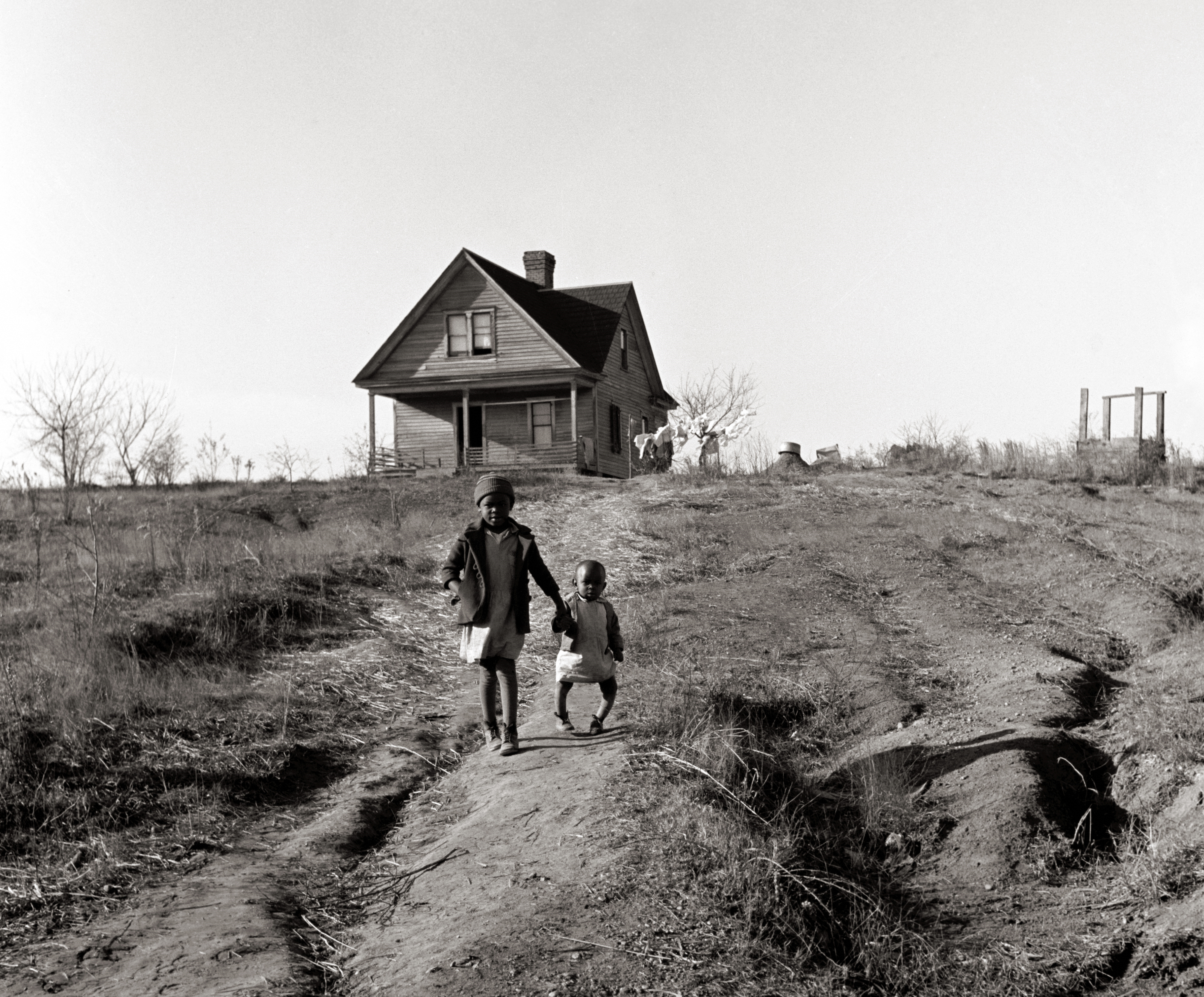 Two African-American children and their home located near Wadesboro, North Carolina, US.